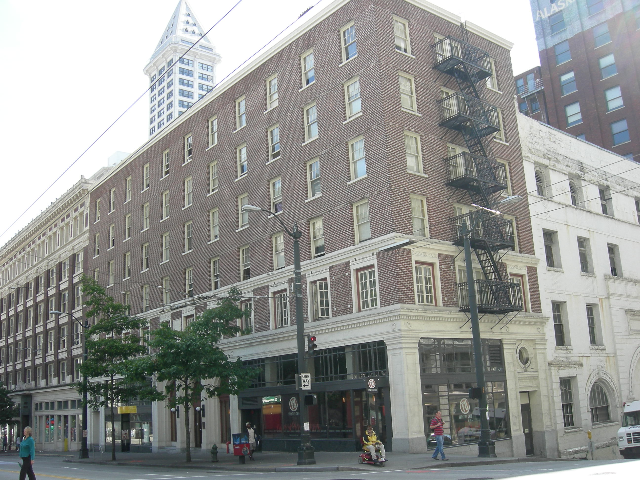 St. Charles Hotel Building, 619–621 Third Avenue, Seattle, Washington, USA, now low-income housing. The building is on the National Register of Historic Places, ID #02000863. The National Register calls it the Rector Hotel; it was also at one time the Governor Hotel.